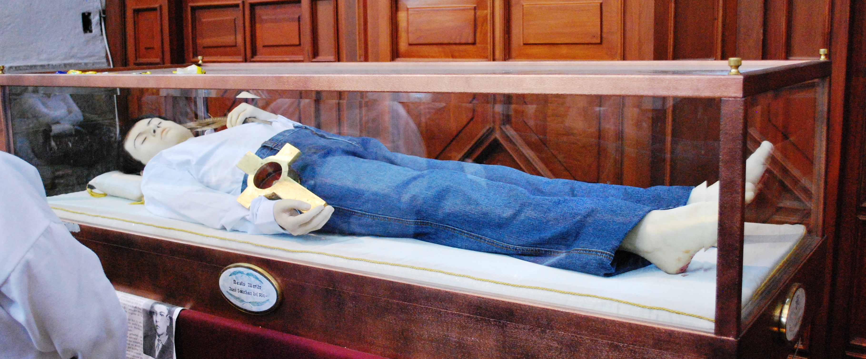 effigy of Jose Sanchez del Rio "Beato Martir" in the San Bernadino de Siena Parish church in Xochimilco, Mexico City